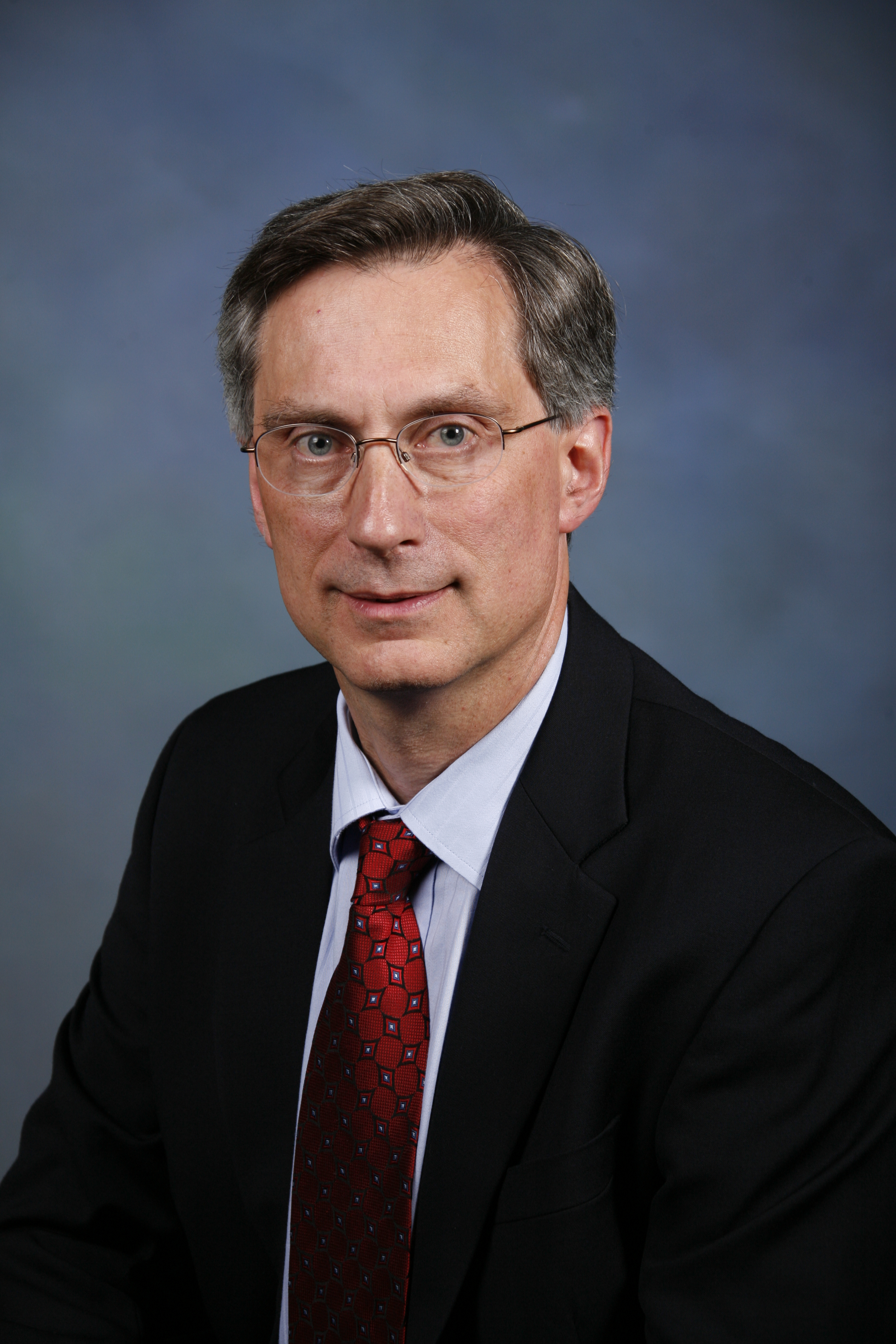 Portrait of Dr. Charles McMillan, director of Los Alamos National Laboratory